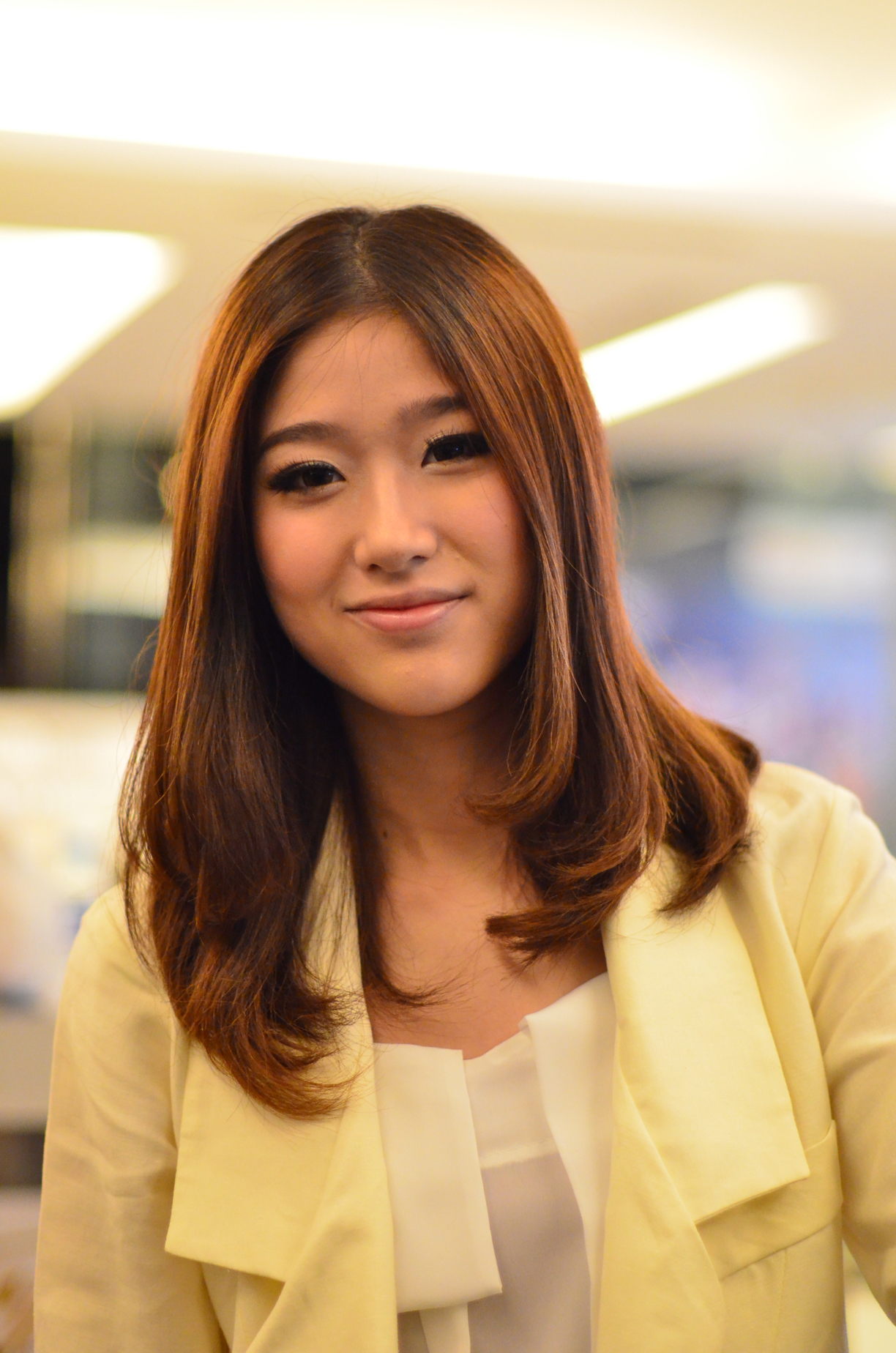 Jarinya Sirimongkolsakul